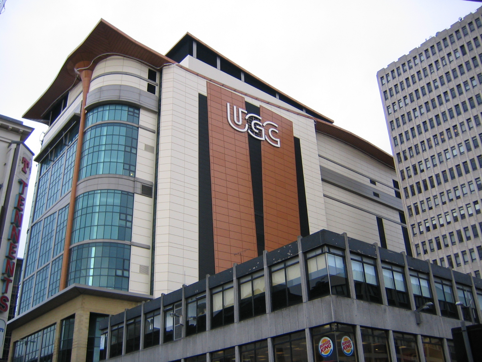 UGC Cinemas. This photo was taken by myself using my Canon ISUX II Digital Camera during my stay in Glasgow. I want to release it in the public domain.